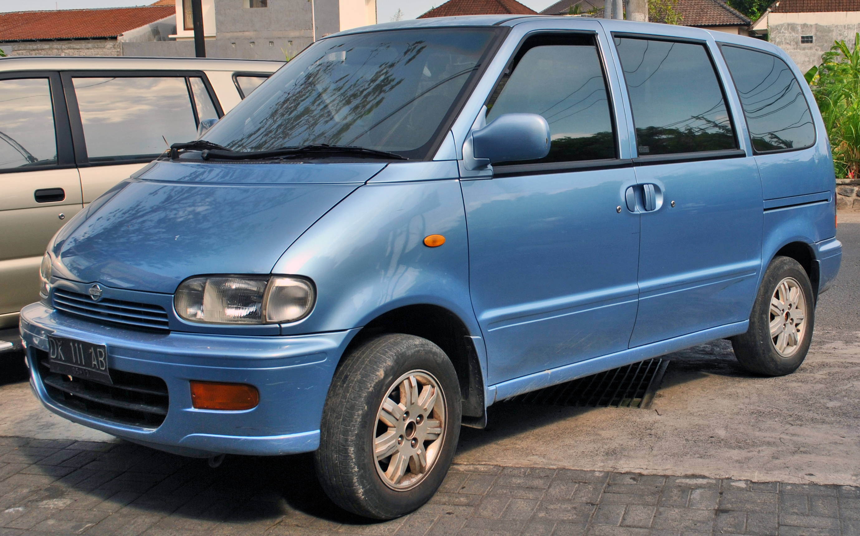 Front view of a first generation "snail" Nissan Serena 1.6i FGX in Denpasar, Bali, Indonesia.